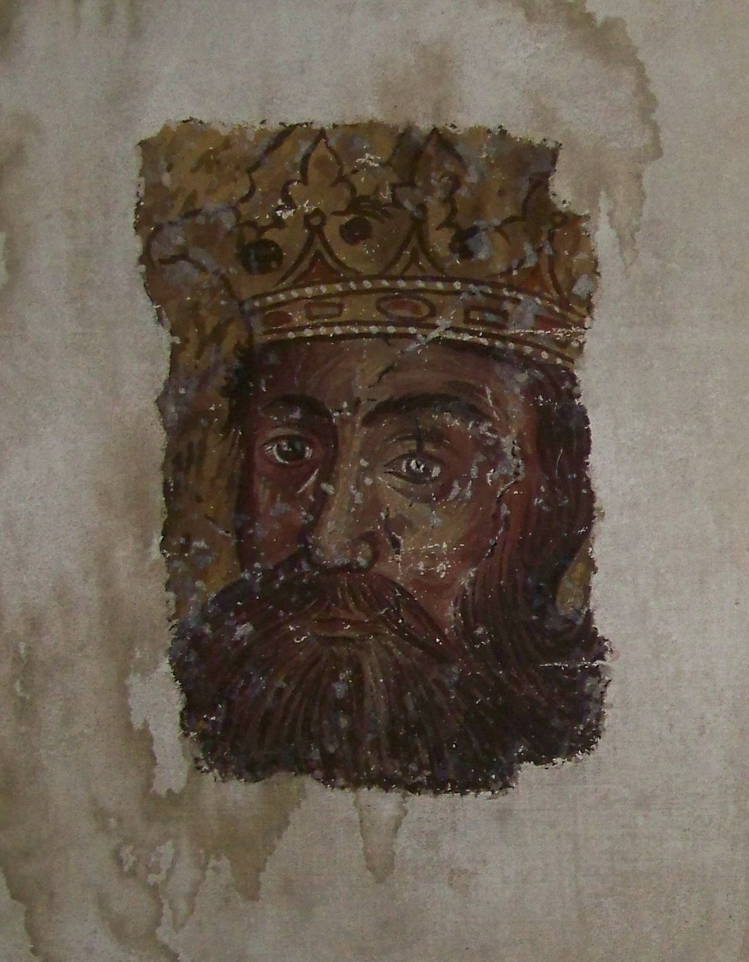 Lazar Hrebeljanović, Serbian duke, 14th century.